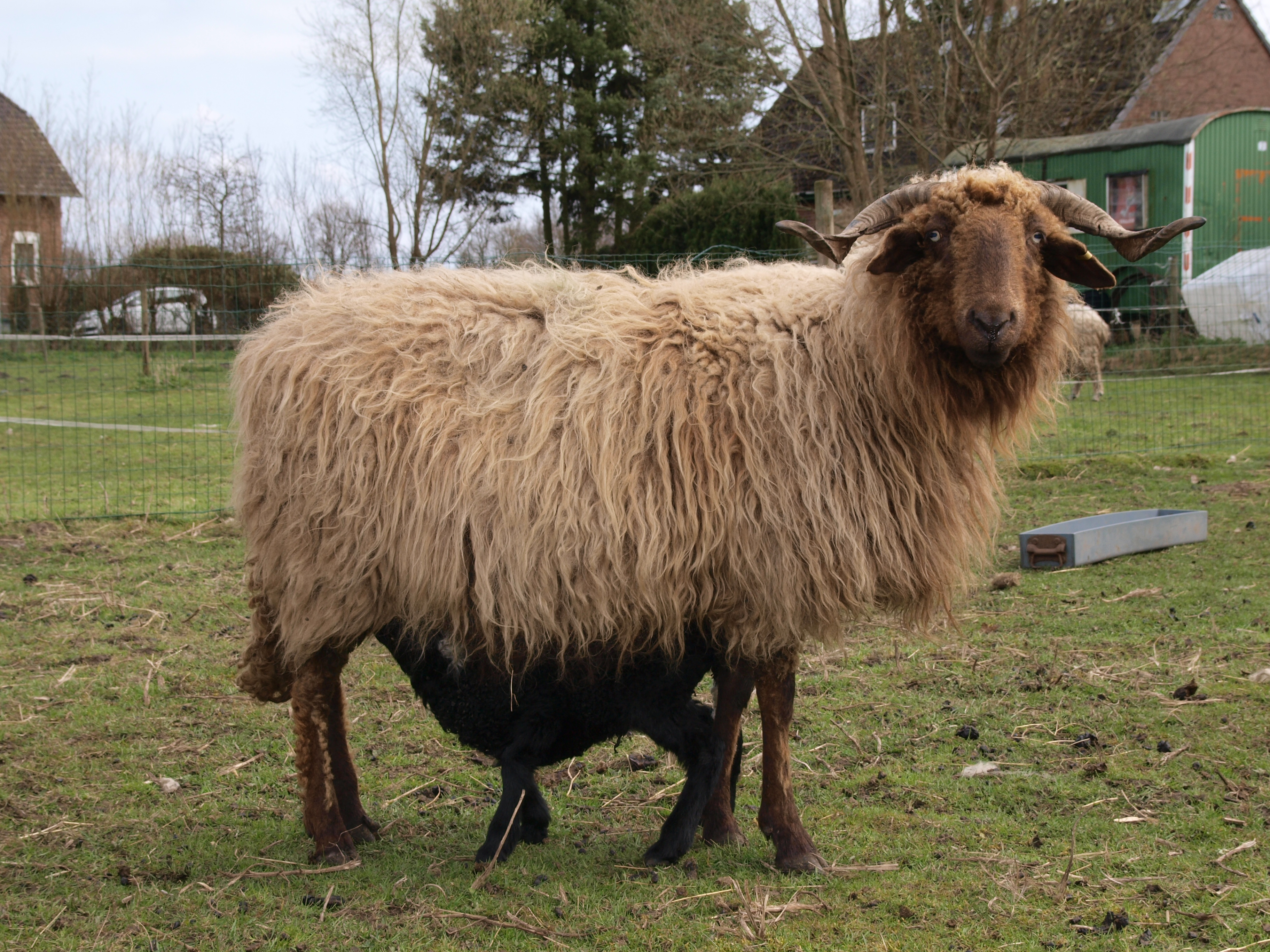 Female Walliser Landschaf (Roux du Valais) feeding her 4 days old lamb.